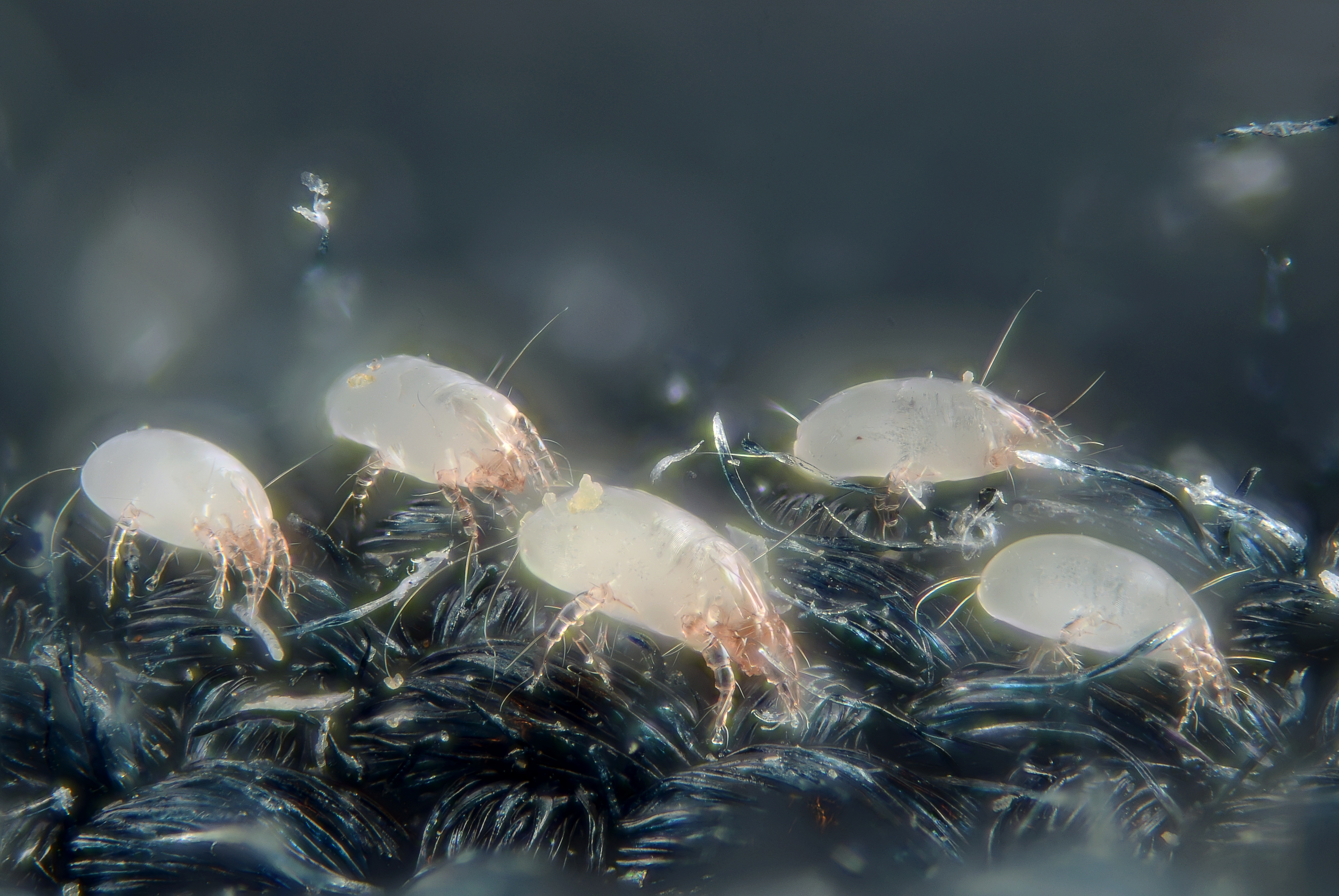 House dust mites (Dermatophagoides pteronyssinus). More information here : Scale : mite length = 0.3 mm Technical settings : - focus stack of 67 images - microscope objective (Nikon achromatic 10x 160/0.25) on bellow